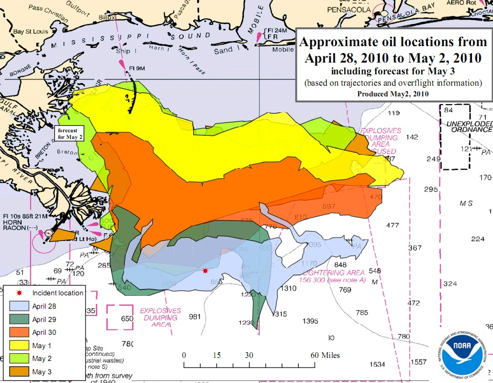 Approximate oil locations from April 27, 2010 to May 1, 2010, by NOAA, Public Domain (Government Document)